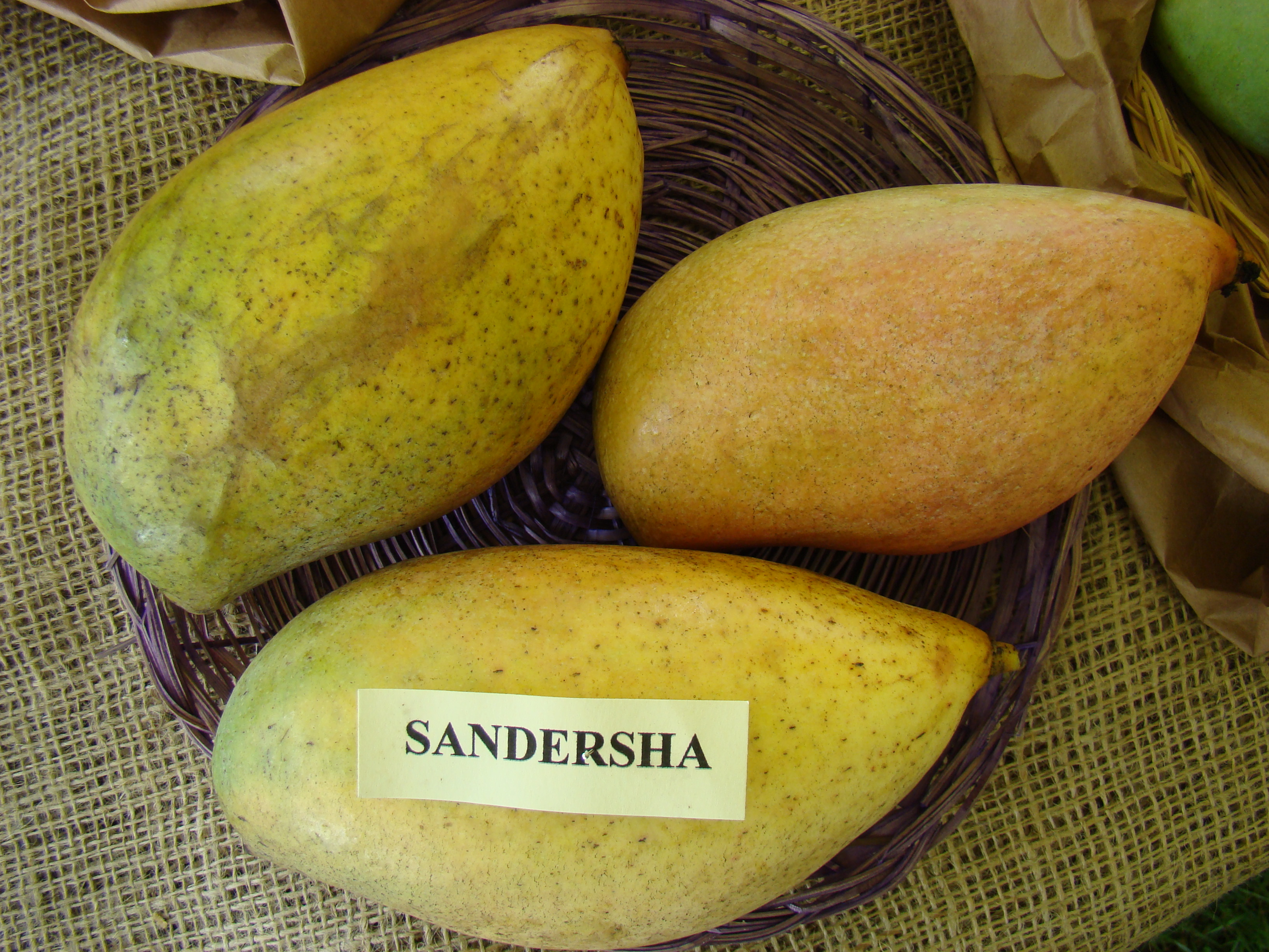 This is a photo of the display of Sandersha mango at the Redland Summer Fruit Festival, Fruit & Spice Park, Homestead, Florida.